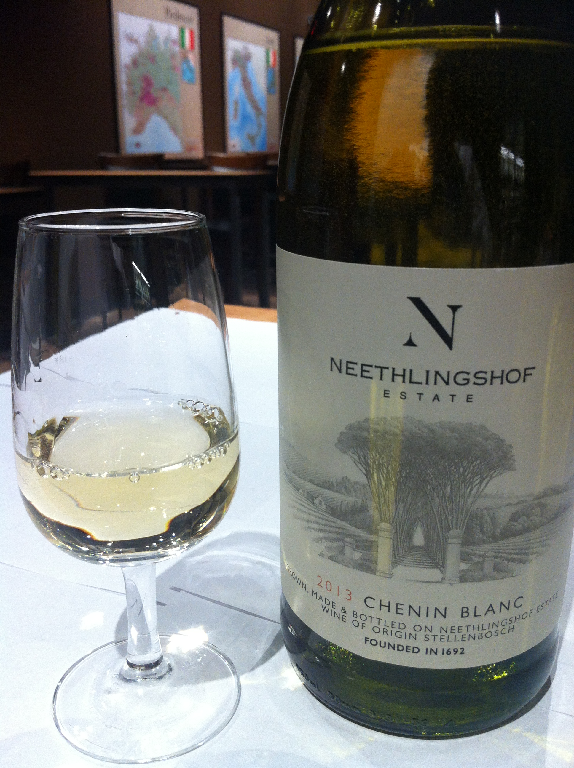 South African Chenin blanc from the Stellenbosch wine region